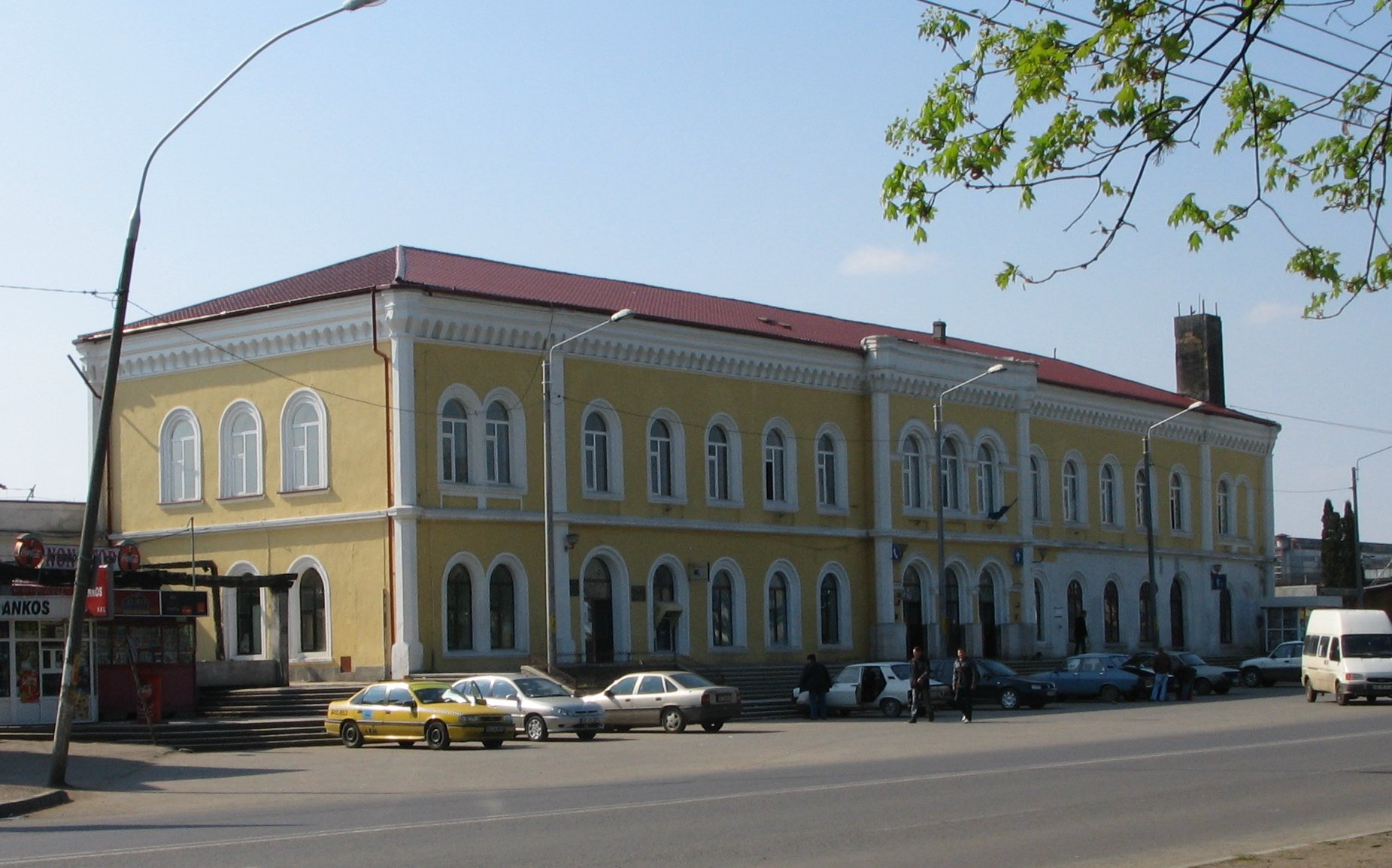 The Roman train station buildingRomână: Gara din Roman, România